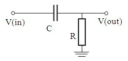 Passive first order high pass filter